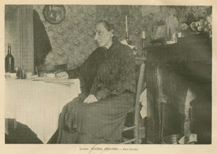 French anarchist and writer Louise Michel at home in her later years